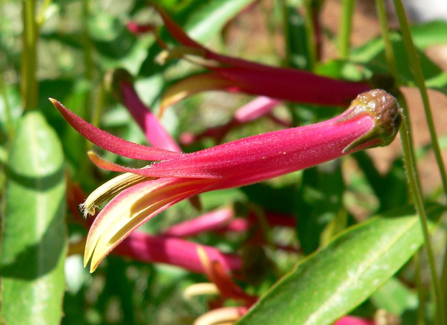 Photo of Lobelia laxiflora (Mexican bush lobelia) flower at the Desert Demonstration Garden in Las Vegas, Nevada